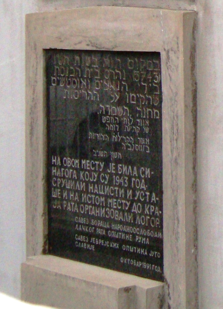 Ruma Jewish memorial plaque